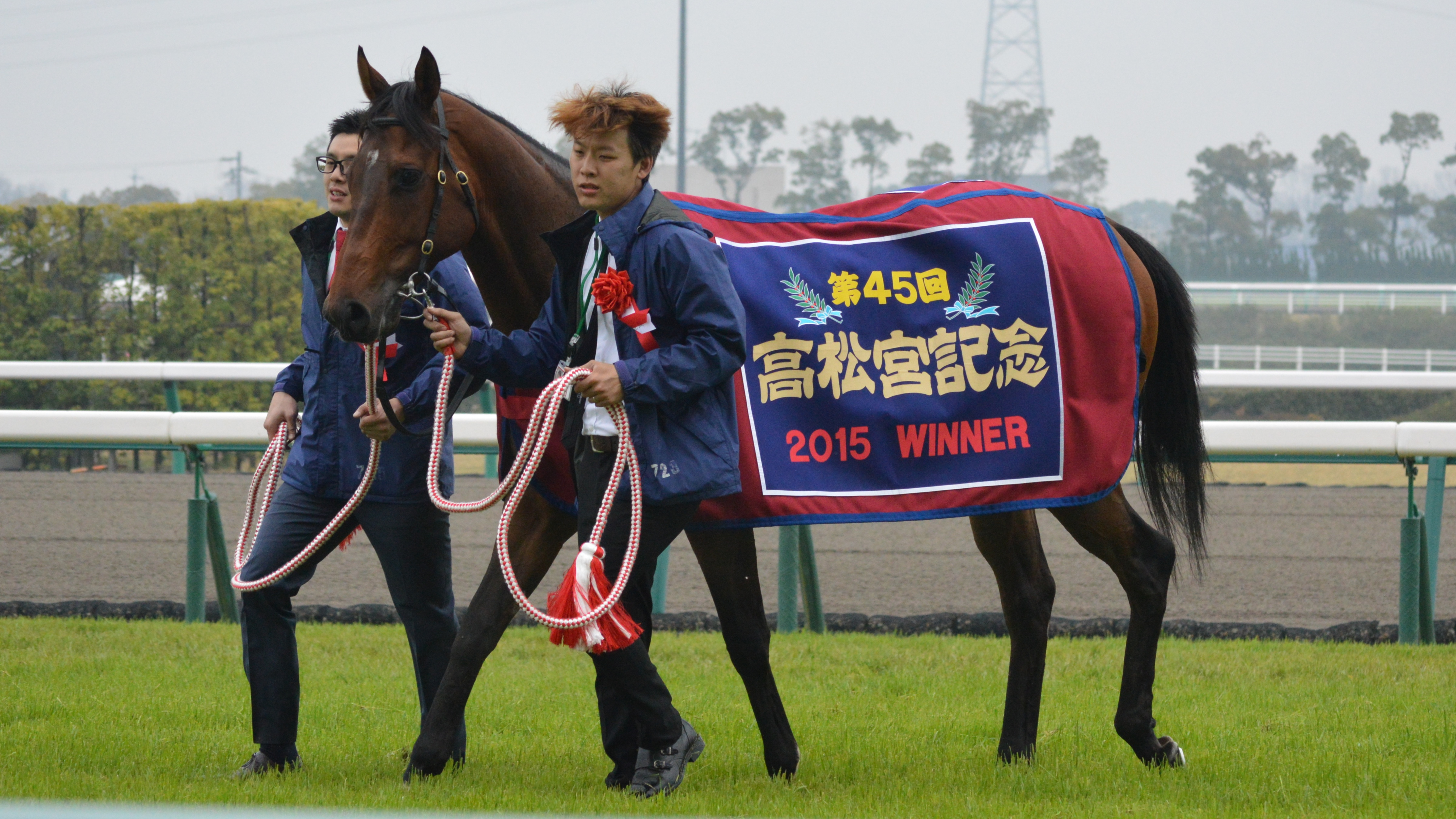 Hongkongese race horse Aerovelocity at Chukyo racecourse. Chukyo (JPN) 29 Mar 2015Takamatsunomiya Kinen (Grade 1) (4yo+) (Turf) 6f Good RankHorse NameOddsAgeWgtJockeyTrainer1stAerovelocity (NZ)11/2G69-0ザカリー・パートンP O'Sullivan2ndHakusan Moon (JPN)158/10H69-0Manabu SakaiMasato NishizonoOthers are omitted. (18 horses entered in a race.)